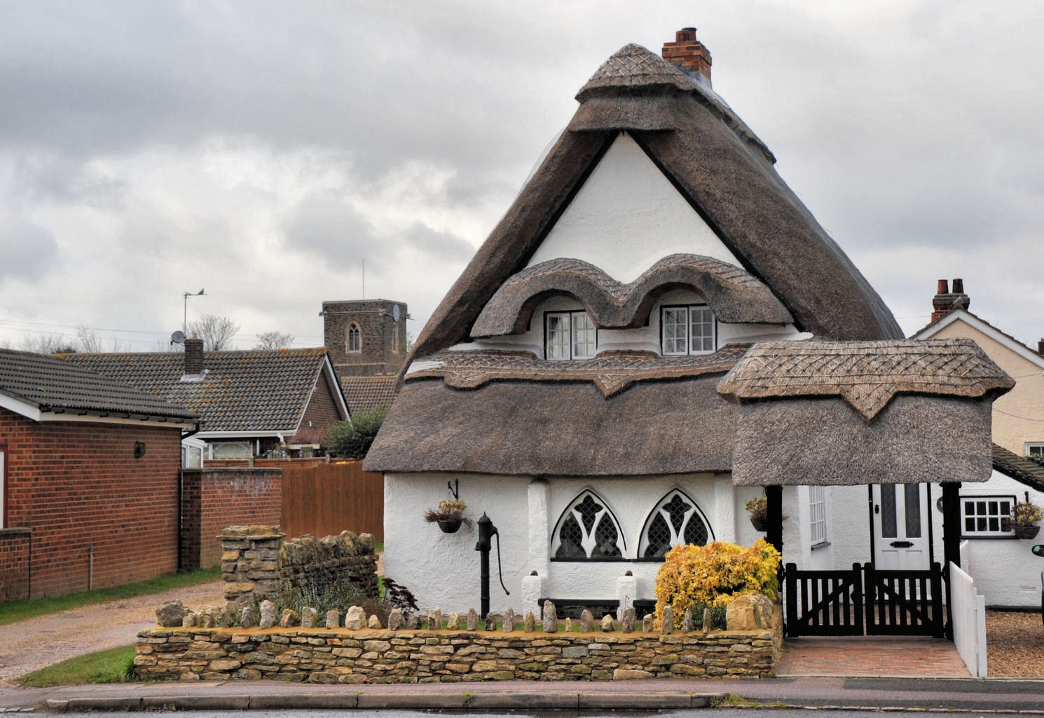 A thatched cottage in Wilstead, Bedfordshire, UK, with the tower of All Saints Church visible in the background. 16a Luton Road.